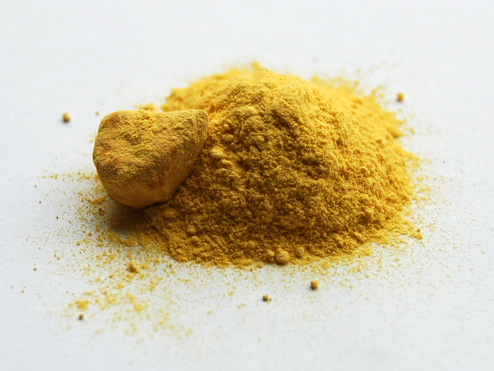 Iron(II) oxalate sample